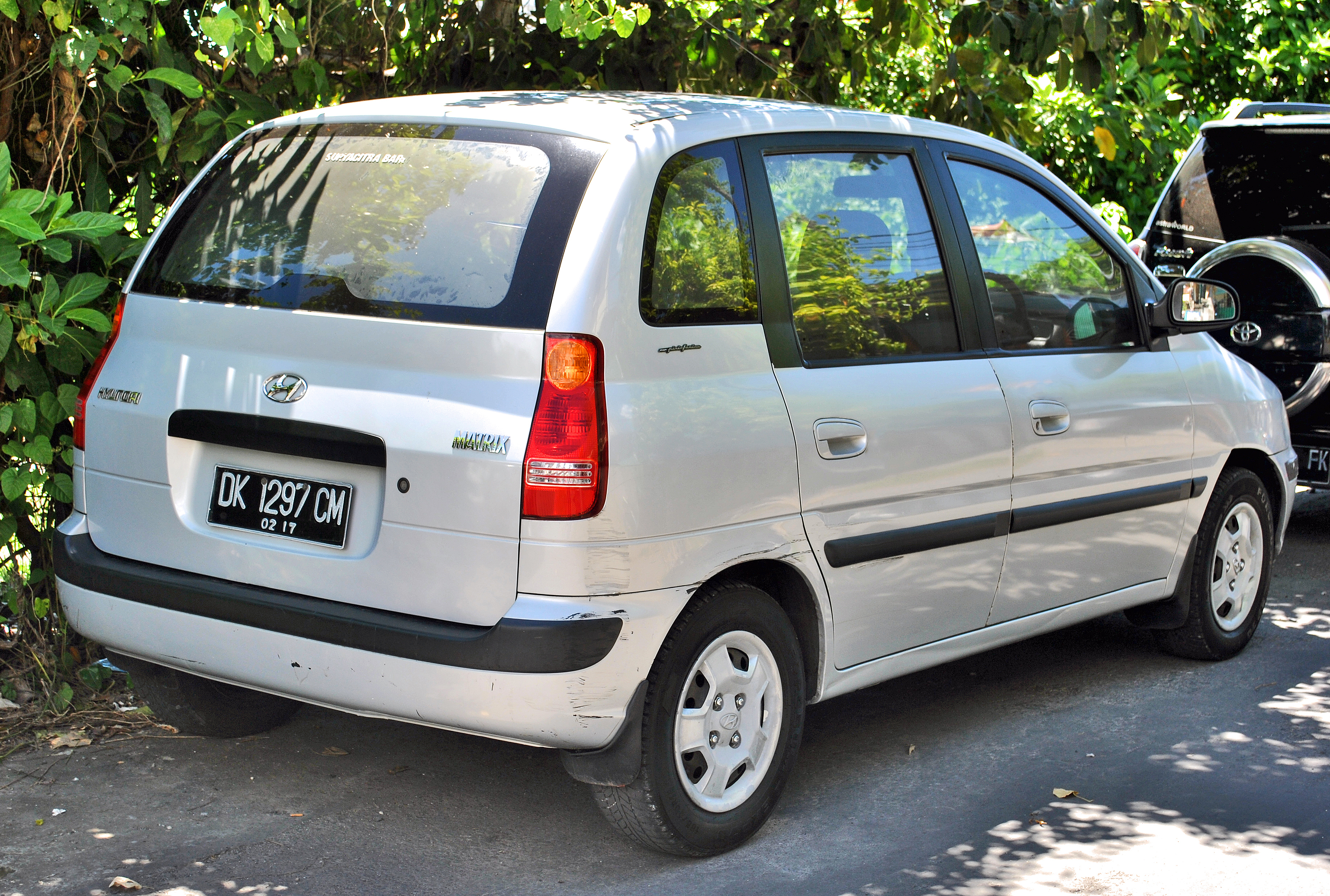 Rear side view of Hyundai Matrix parked somewhere around Denpasar, Bali, Indonesia.